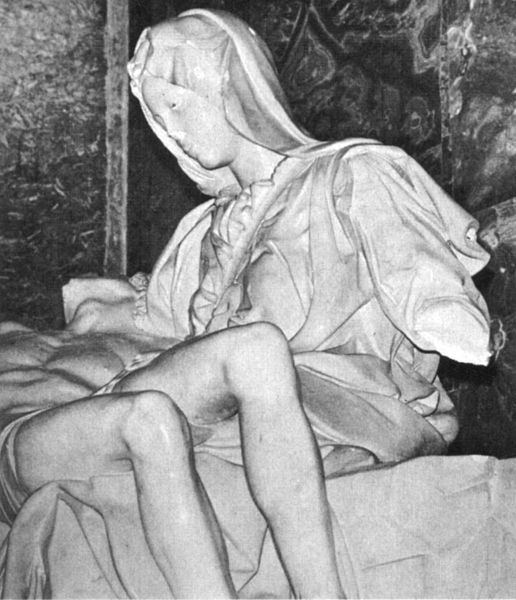 Pieta in Vatican after vandalism in 1972.